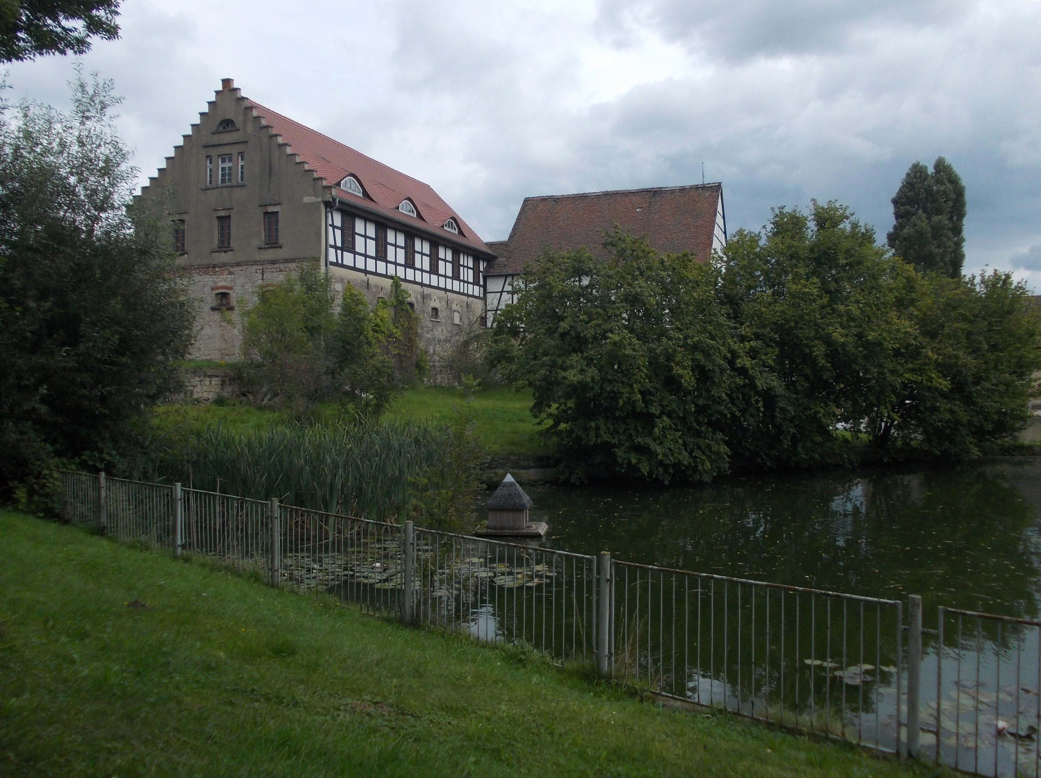 At the pond in Seidewitz (Molauer Land, district: Burgenlandkreis, Saxony-Anhalt)